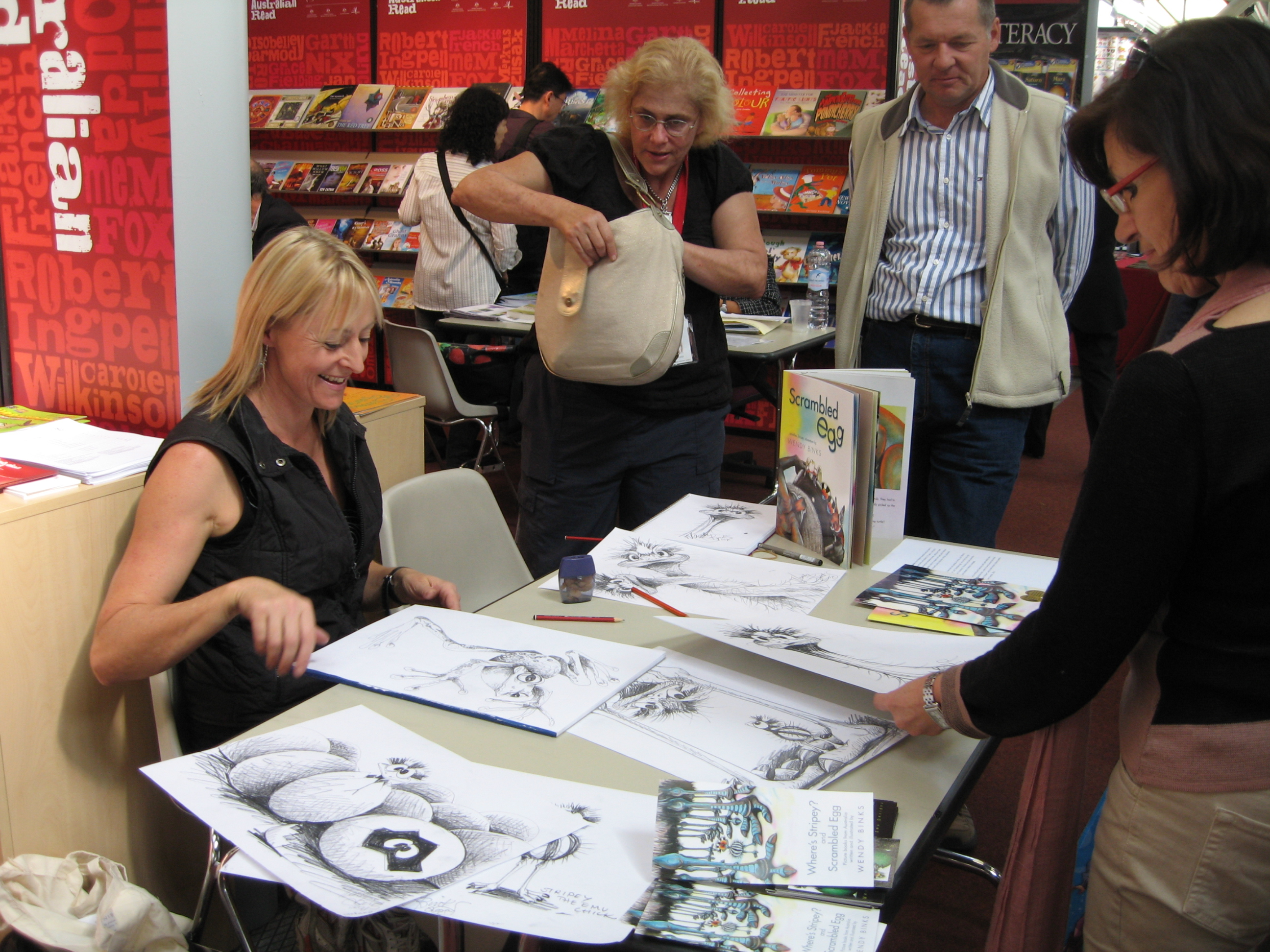 Australian potter, artist and author Wendy Binks showing her drawing at Bologna Children's Book Fair 2008